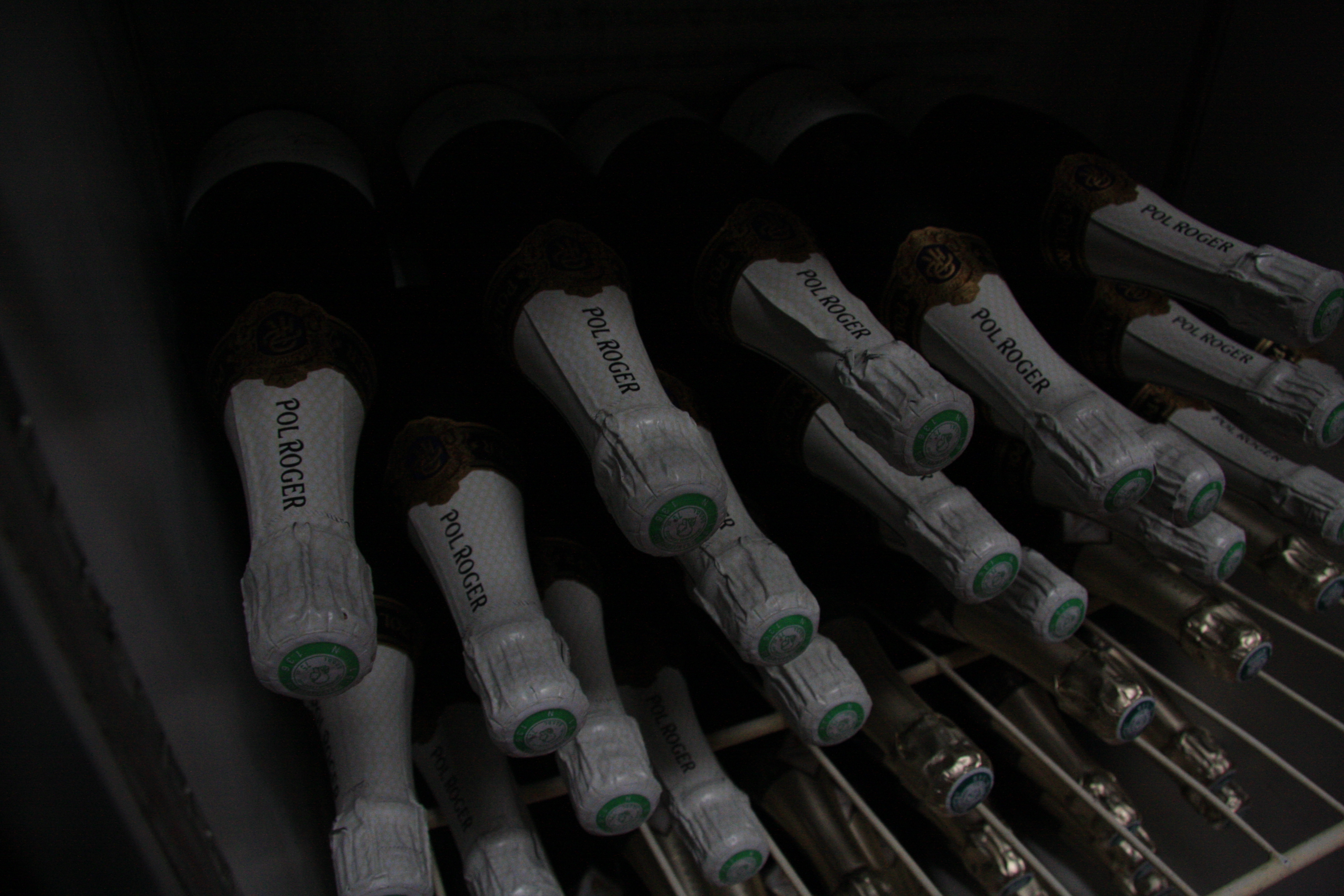 Bottles of Pol Roger Champagne